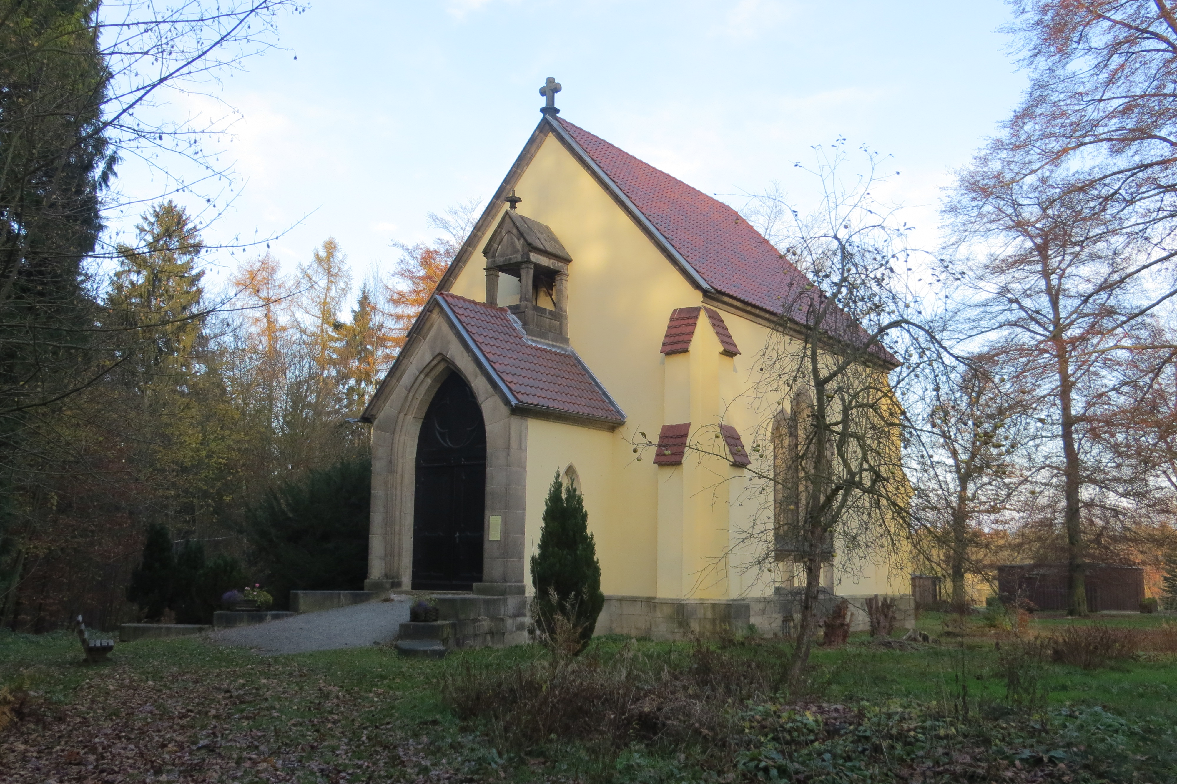 Mausoleum of the Principality of Reuss-Greiz in Waldhaus near Greiz